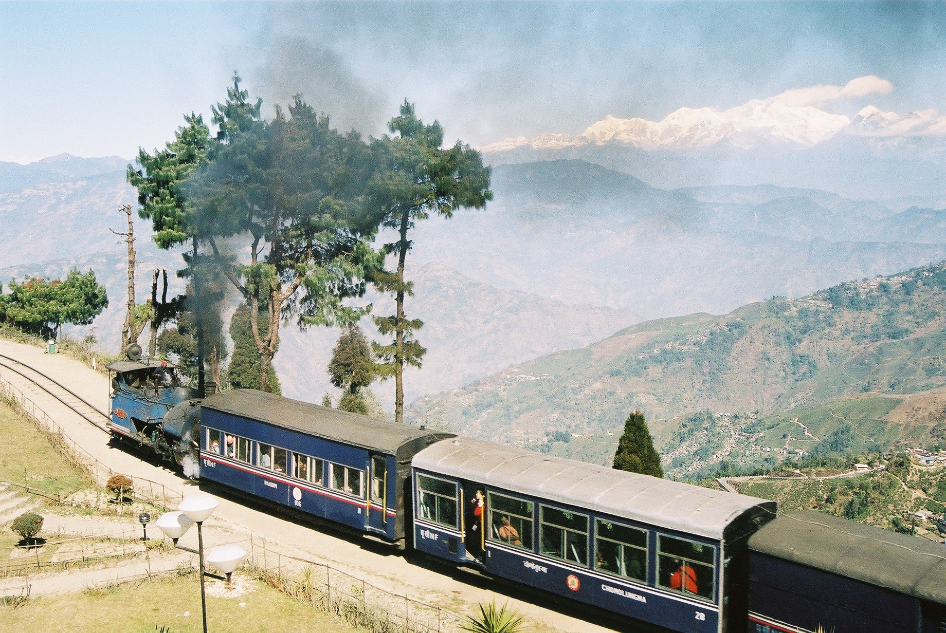 DHR Locomotive 780, with an excursion train (actually empty carriages returning to Siliguri) on the upper part of Batasia Loop. The Himalayan mountains (including Kanchenjunga) form the background. 21st February 2005 Photographer - A.M.Hurrell Camera - Minolta X700 (35mm film) Modified - Scanned by film developer. File size and definition changed using Adobe Photoshop 5.0LE